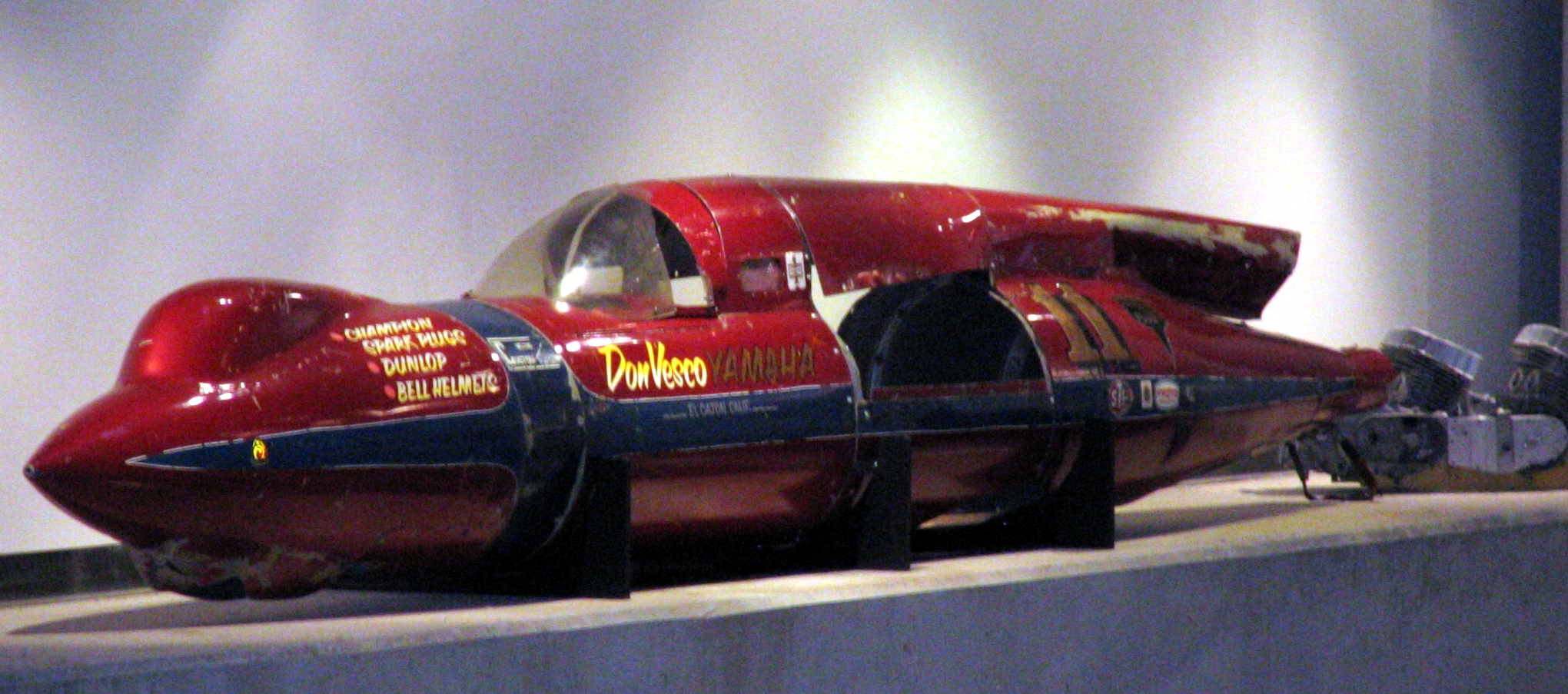 a salt-flats racer on display at the Barber Motorsports Museum - the world's largest private collection of vintage motorcycles